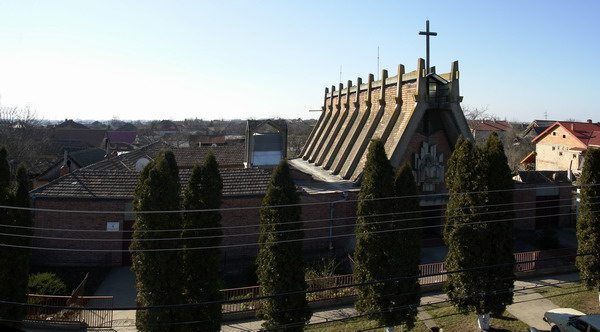 Catholic Church Dumbravita